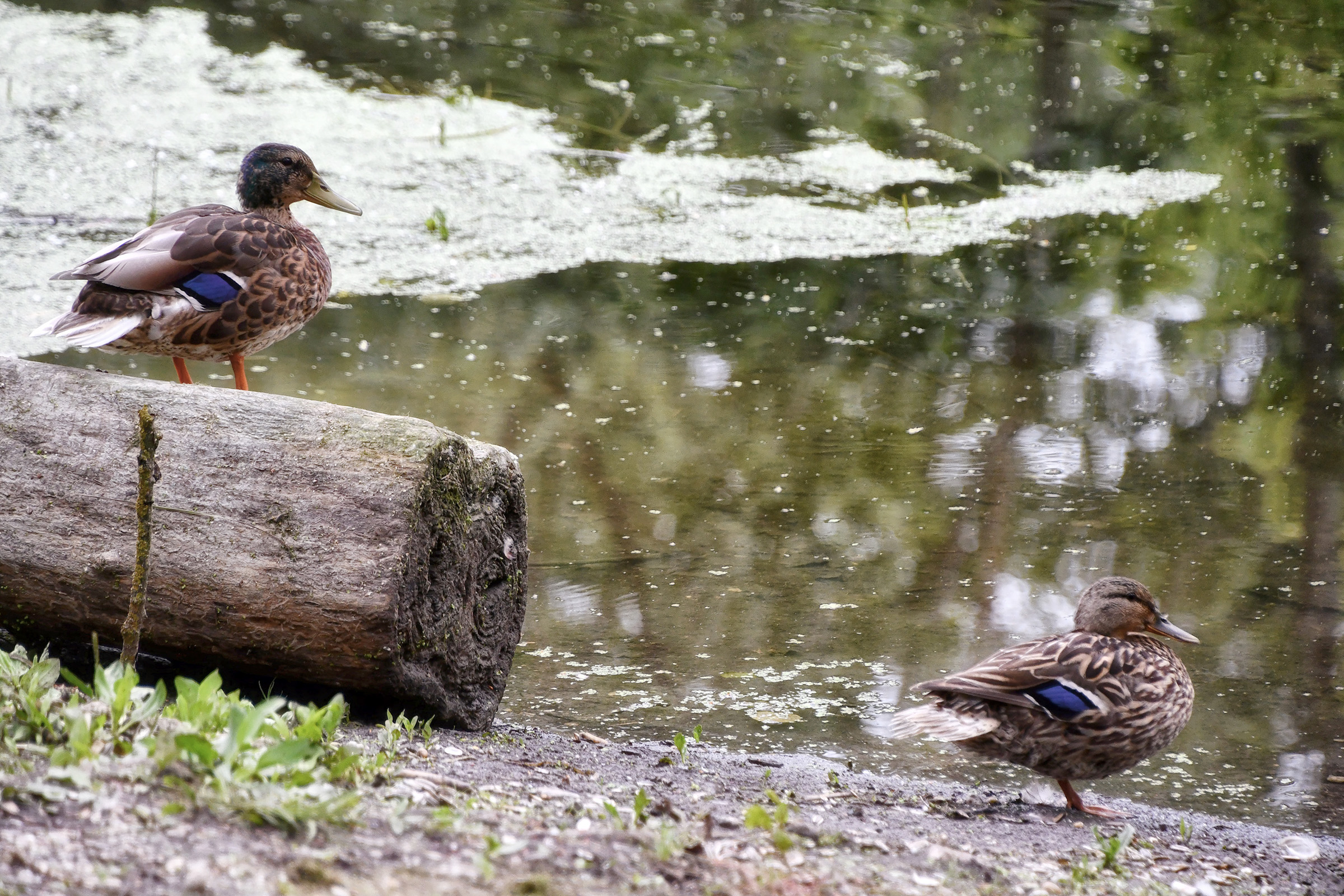 Female mallards by the Rábca-torok, Abda, Hungary